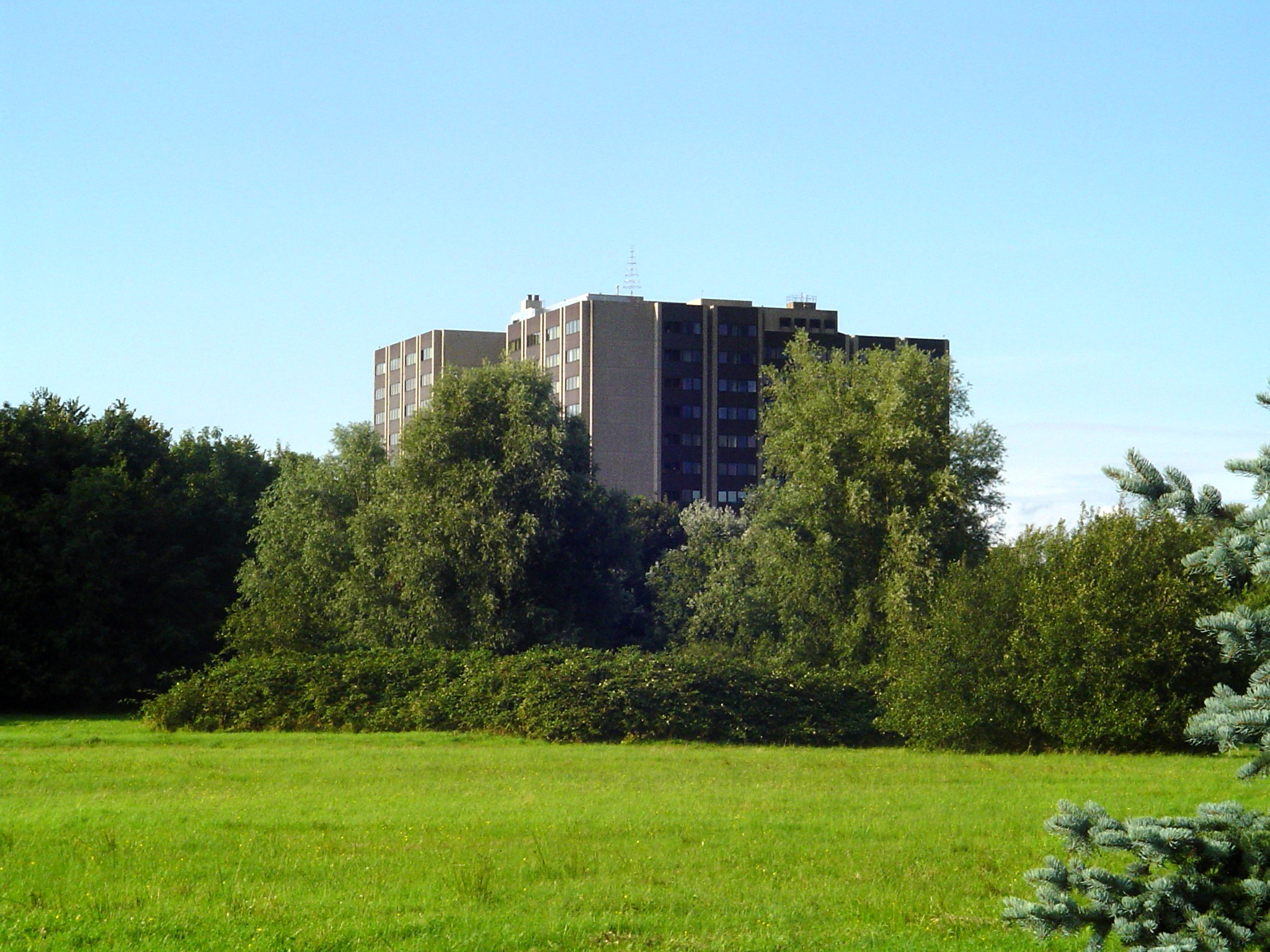 hospital Reinkenheide in Bremerhavene, Germany. Shot from South. Official name: Klinikum Bremerhaven-Reinkenheide gGmbH